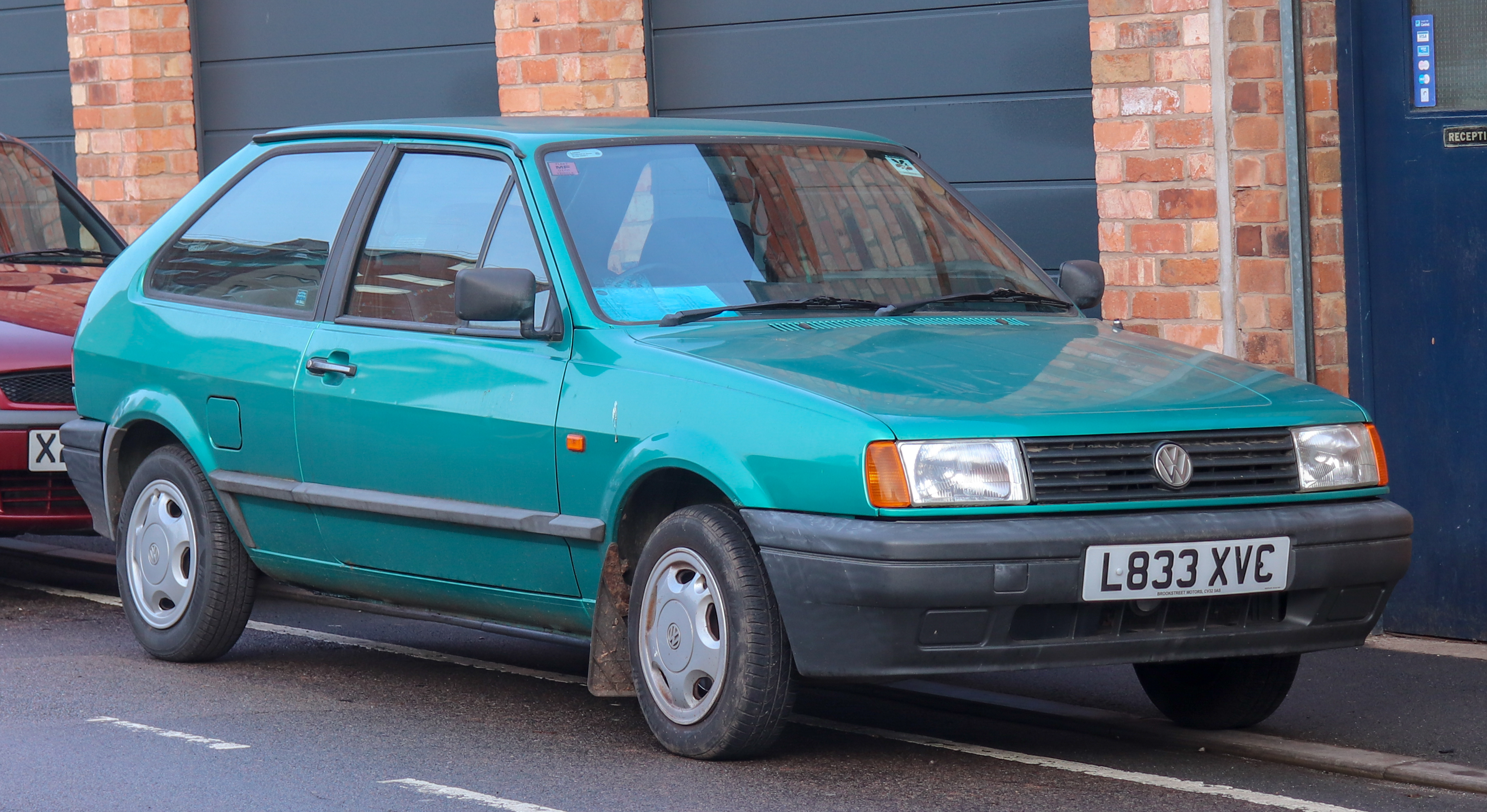 1994 Volkswagen Polo Coupe Boulevard 1.0 Front Taken in Leamington Spa